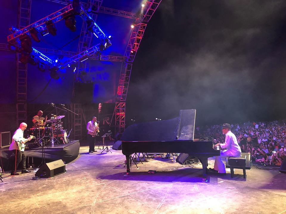 Bob Baldwin at the Riviera Maya Jazz Festival at Mamita's Beach, near Cancun, Mexico